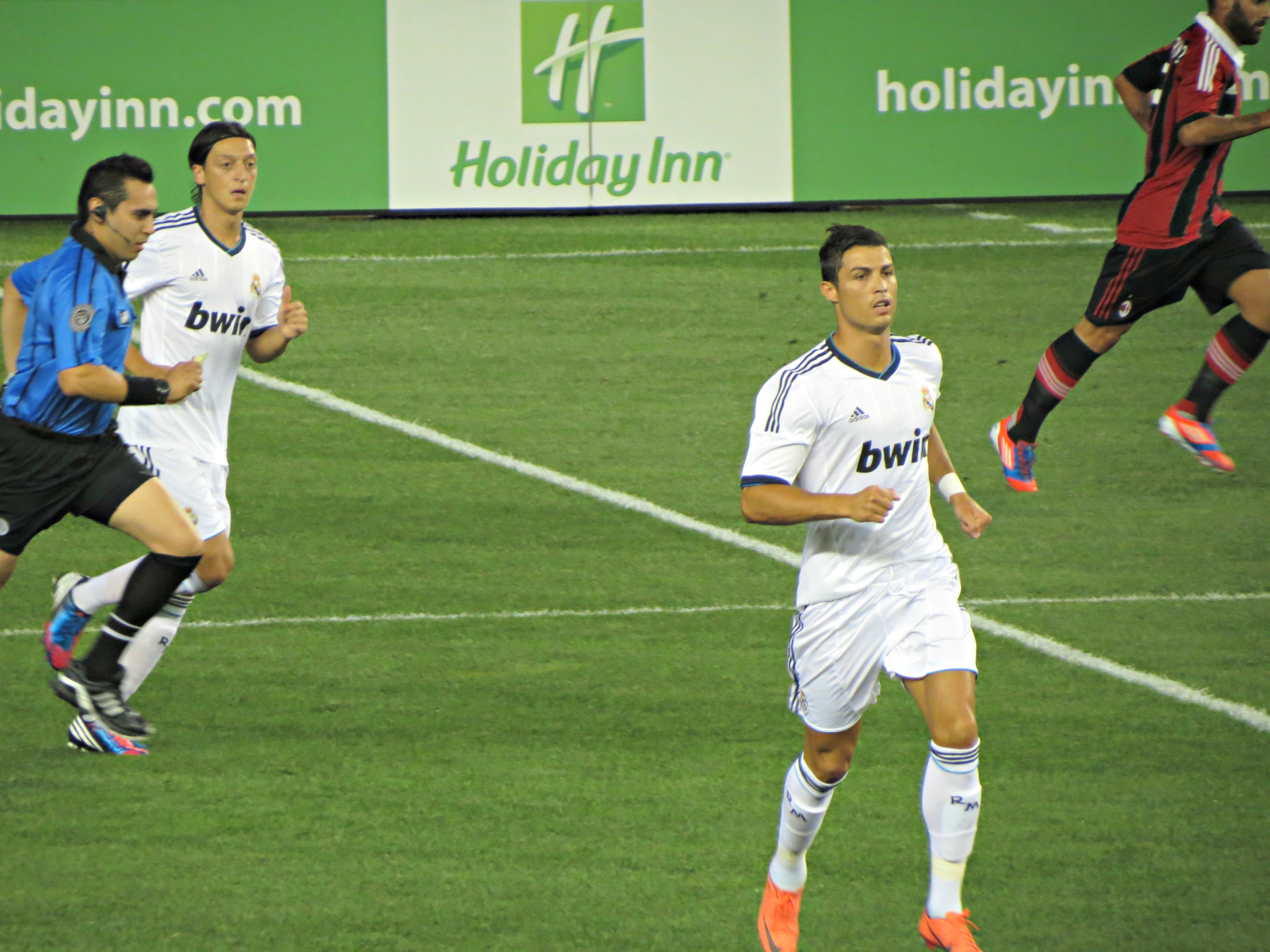 Mesut Özil and Cristiano Ronaldo of Real Madrid.